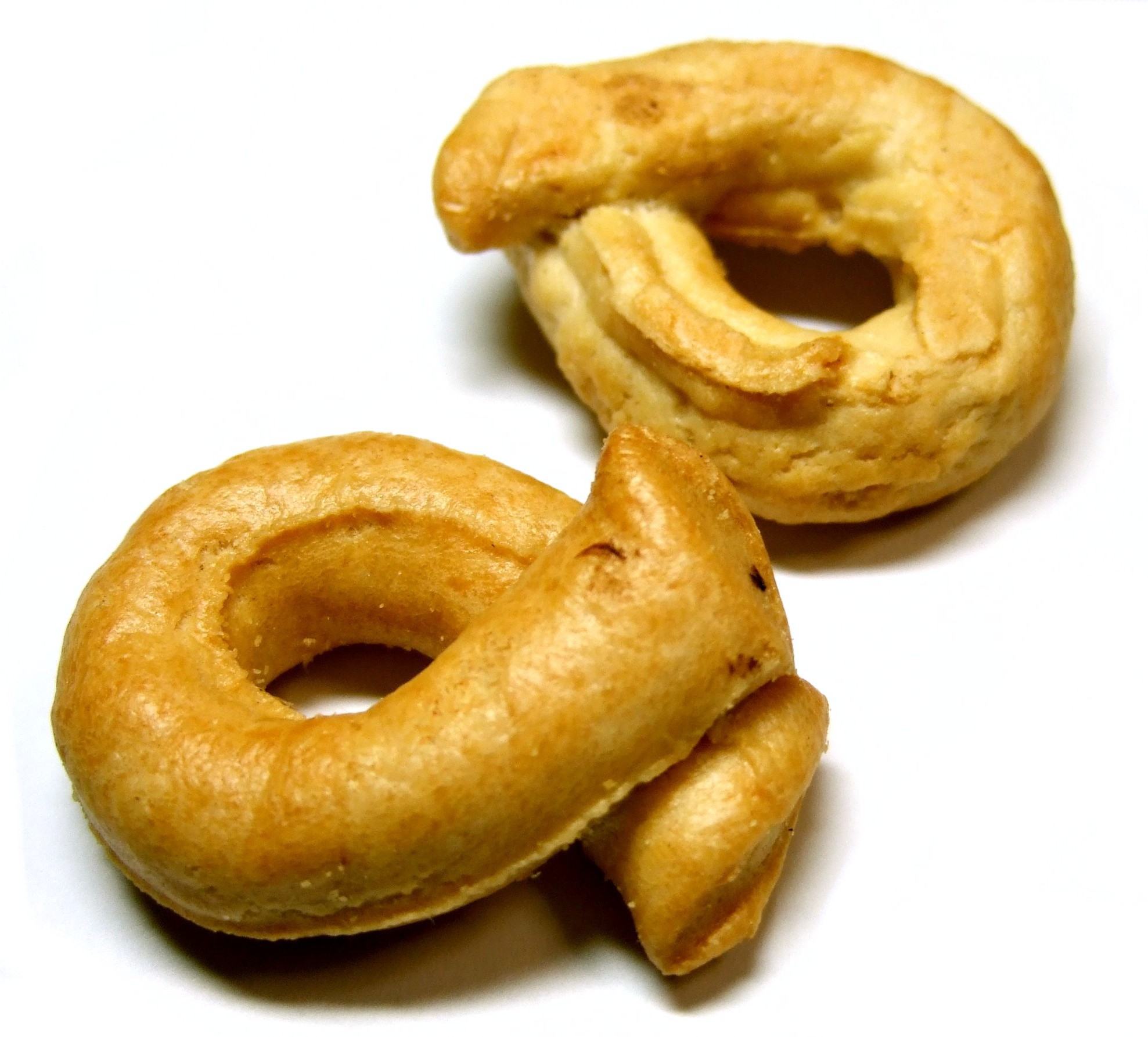 Tarallini. Photo taken in Bari Italy. Size is about 30mm. Ingredients: softwheat flower, olive oil, white wine, origan, salt, yeast.